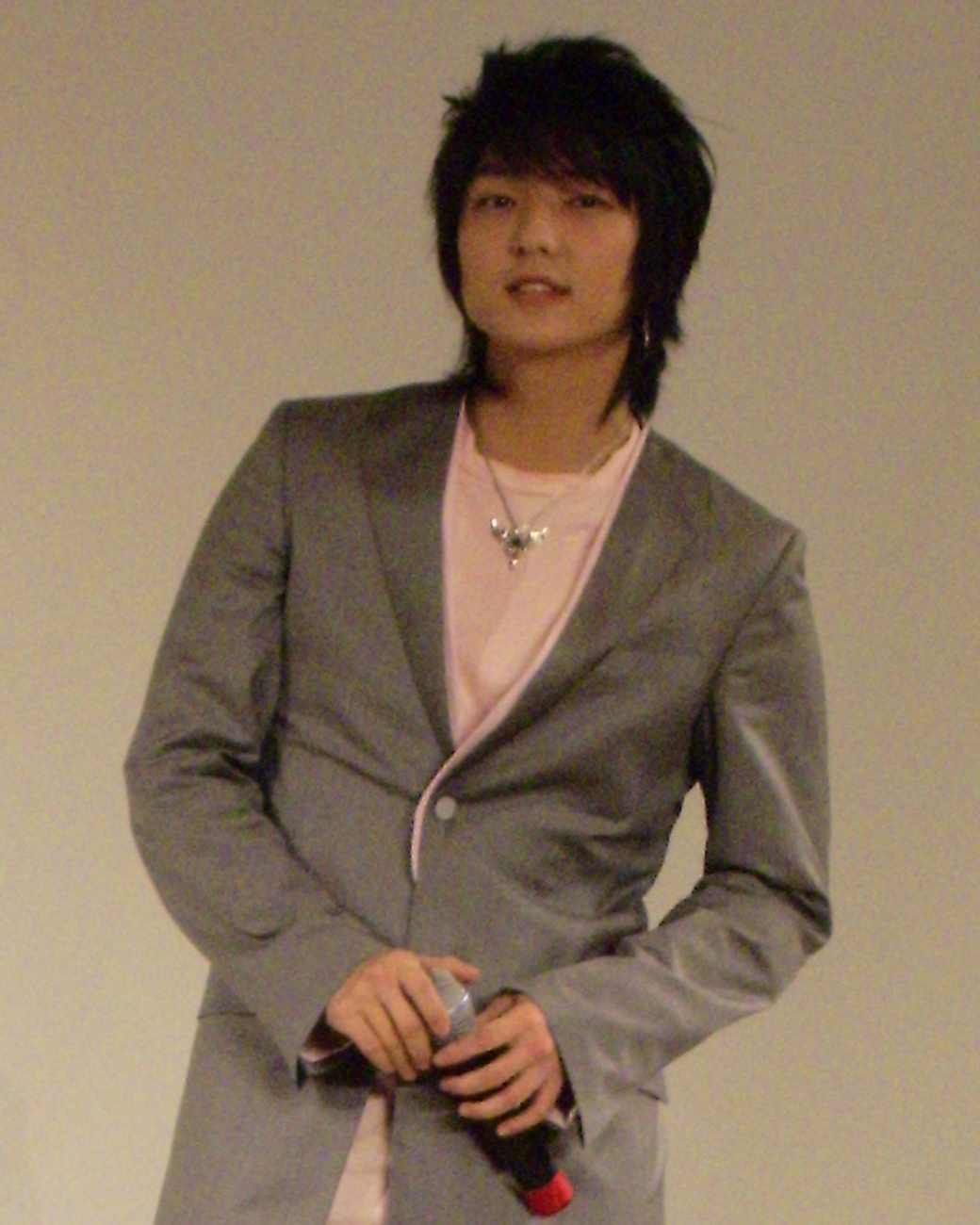 Lee Jun Ki at a King and the Clown fan meeting in the Shilla Hotel, Jeju Island